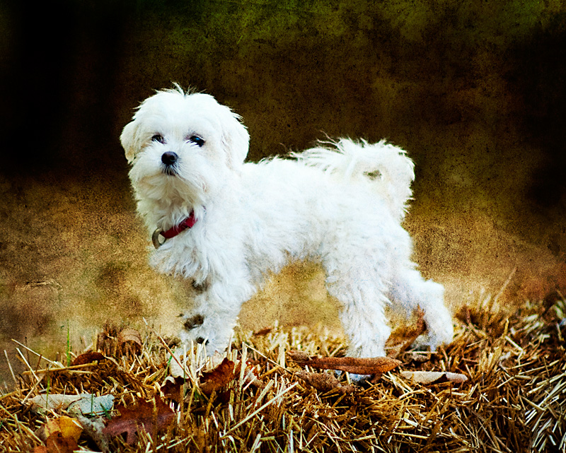 Maltese Guard Dog Extraondinaire! 4.5 pounds.